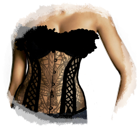 A corset made by me in Photoshop for my wikipedia page.